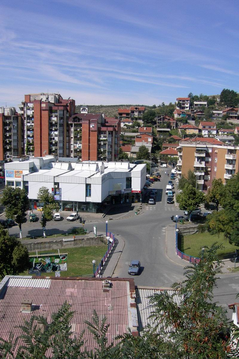 Center of the town of Kočani, R.o.Macedonia Centralny plac w Kočani, Macedonia